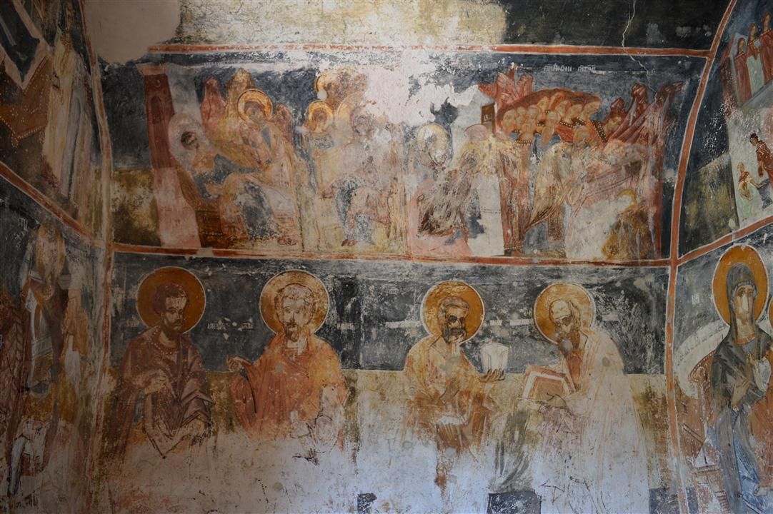 Raska Municipality - Church of St. Petka, Trnava